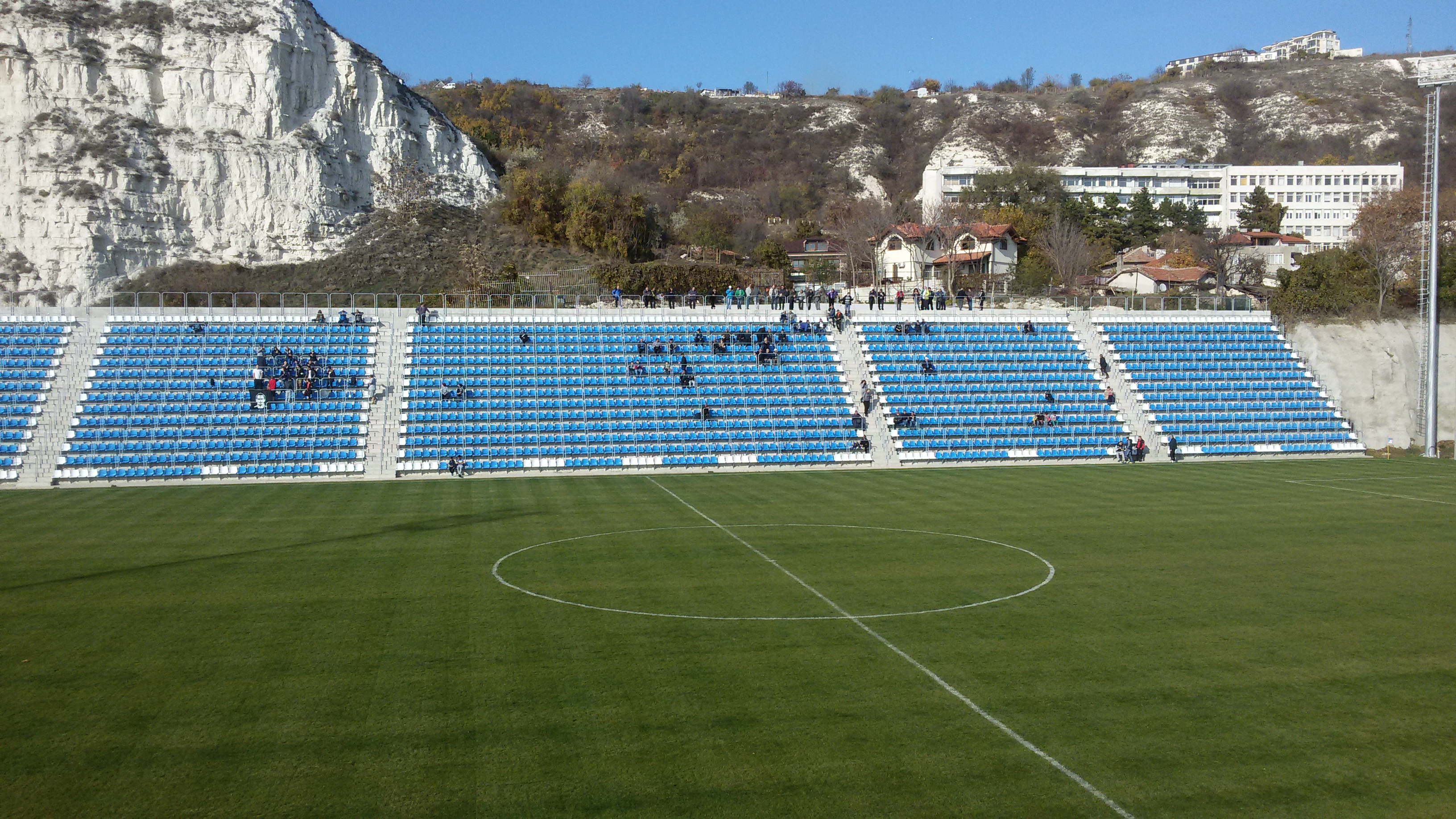 Balchik Stadium in Balchik, Bulgaria